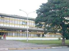 Picture of the Oceanographic Institute of the University of São Paulo